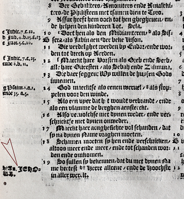 side note in the margin. First time in a Dutch bible that the word JEHOVA was used